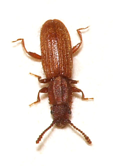 Oryzaephilus surinamensis